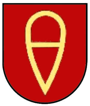 Coat of arms of Linx in Rheinau (Baden)